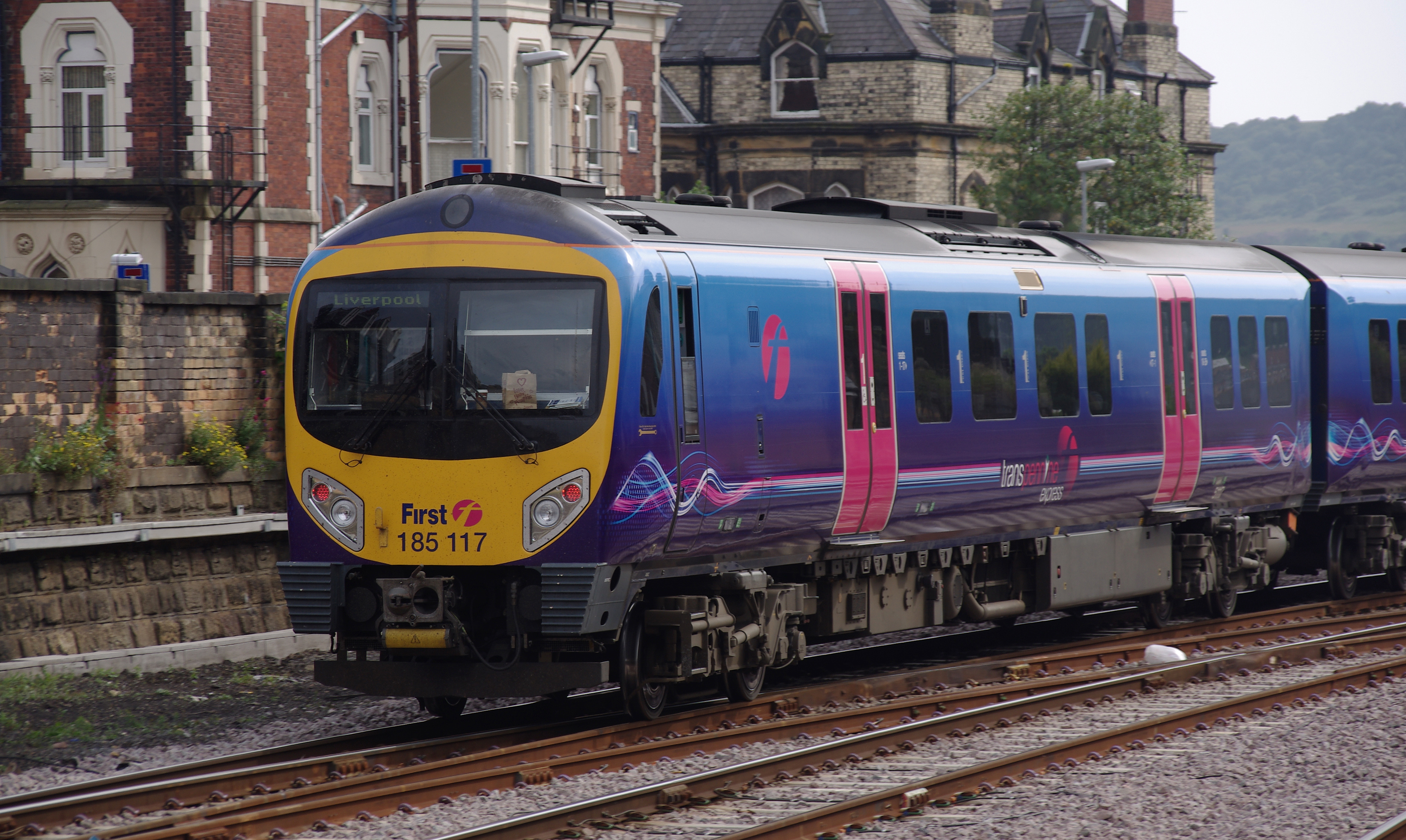 First TransPennine Express Desiro DMU 185117 departs Scarborough railway station with a service to Liverpool.